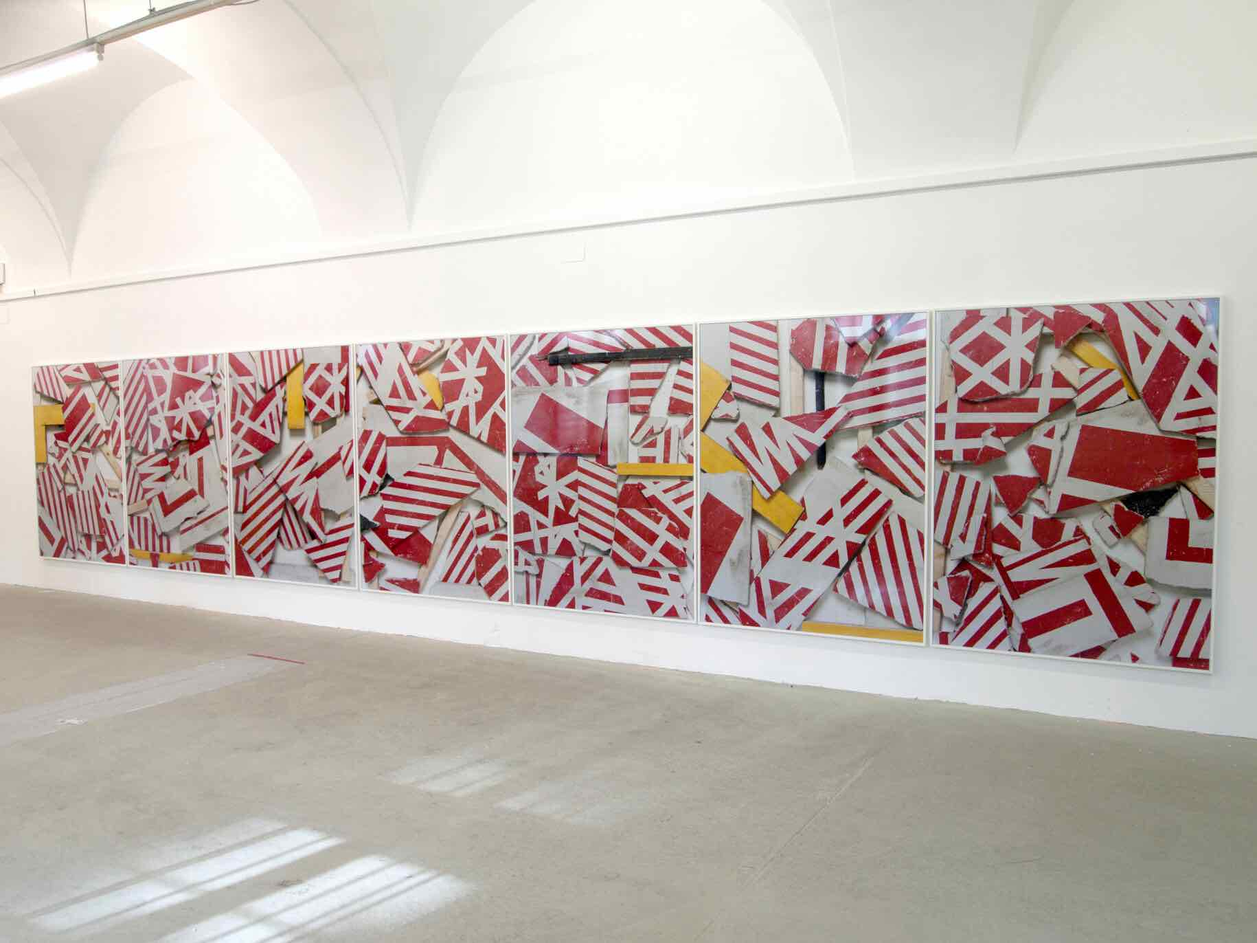 With the best will in the world i cant see a boot